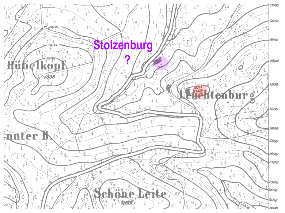 A map of Ruhla with the location Leuchtenburg and Schönburg castle